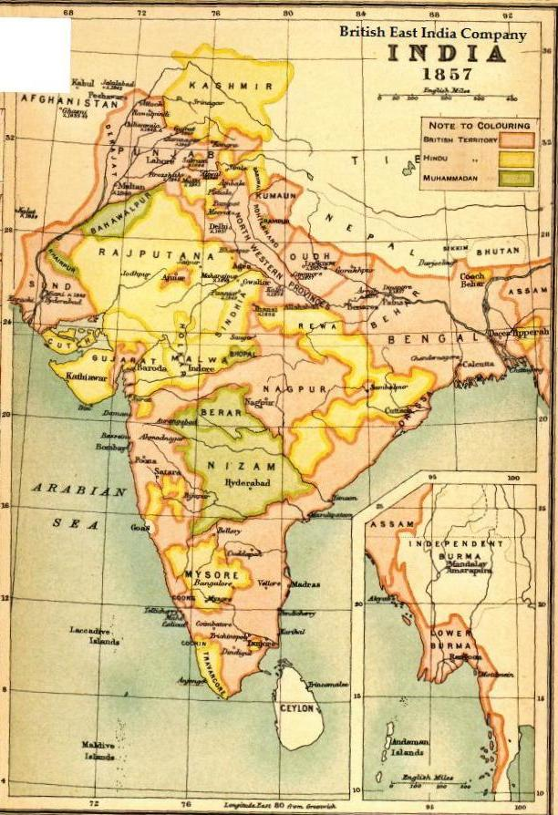 Map of India under the British East India Company, 1857.